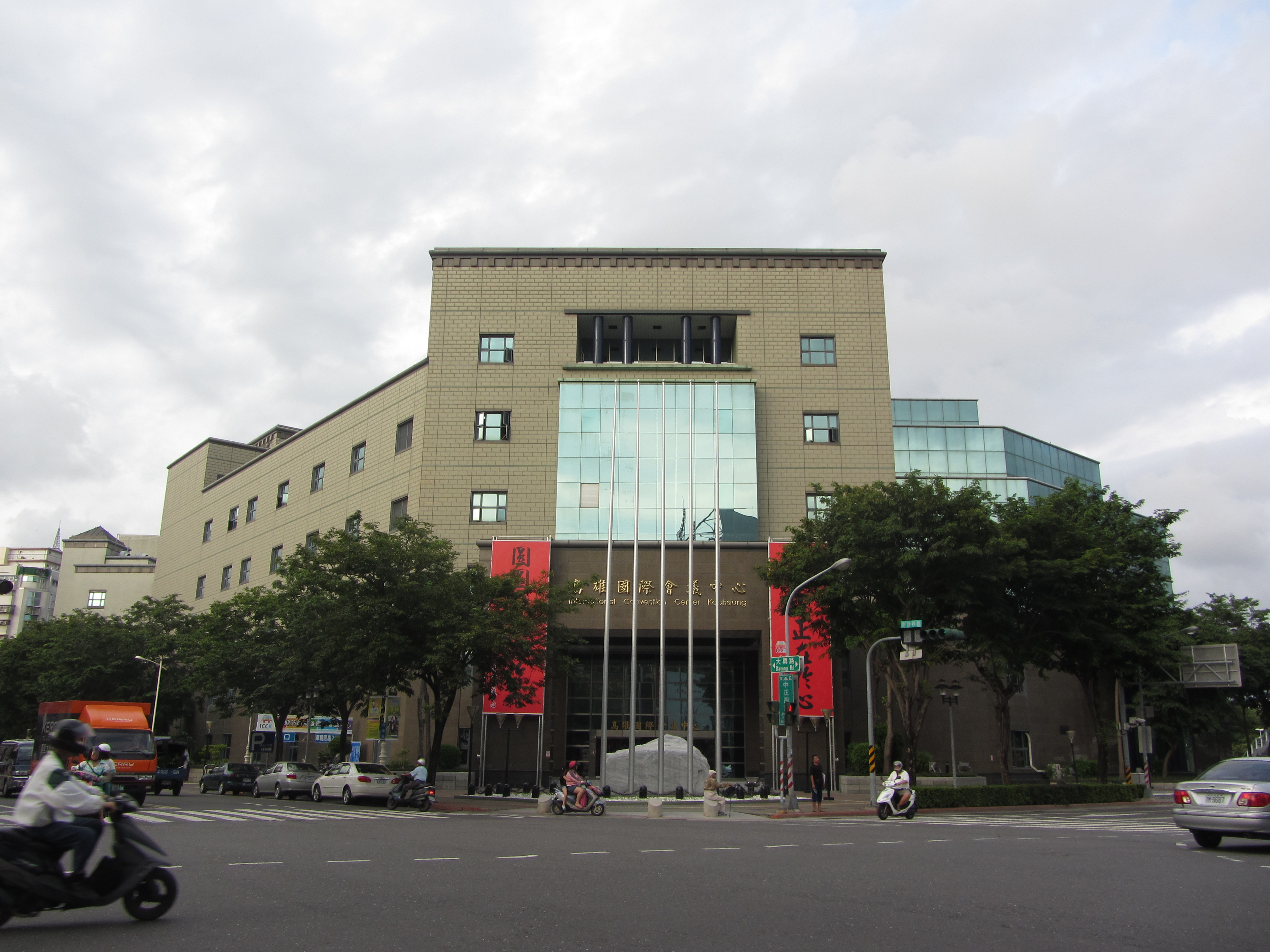 International Convention Center Kaohsiung front view.中文（台灣）: 高雄國際會議中心正面。